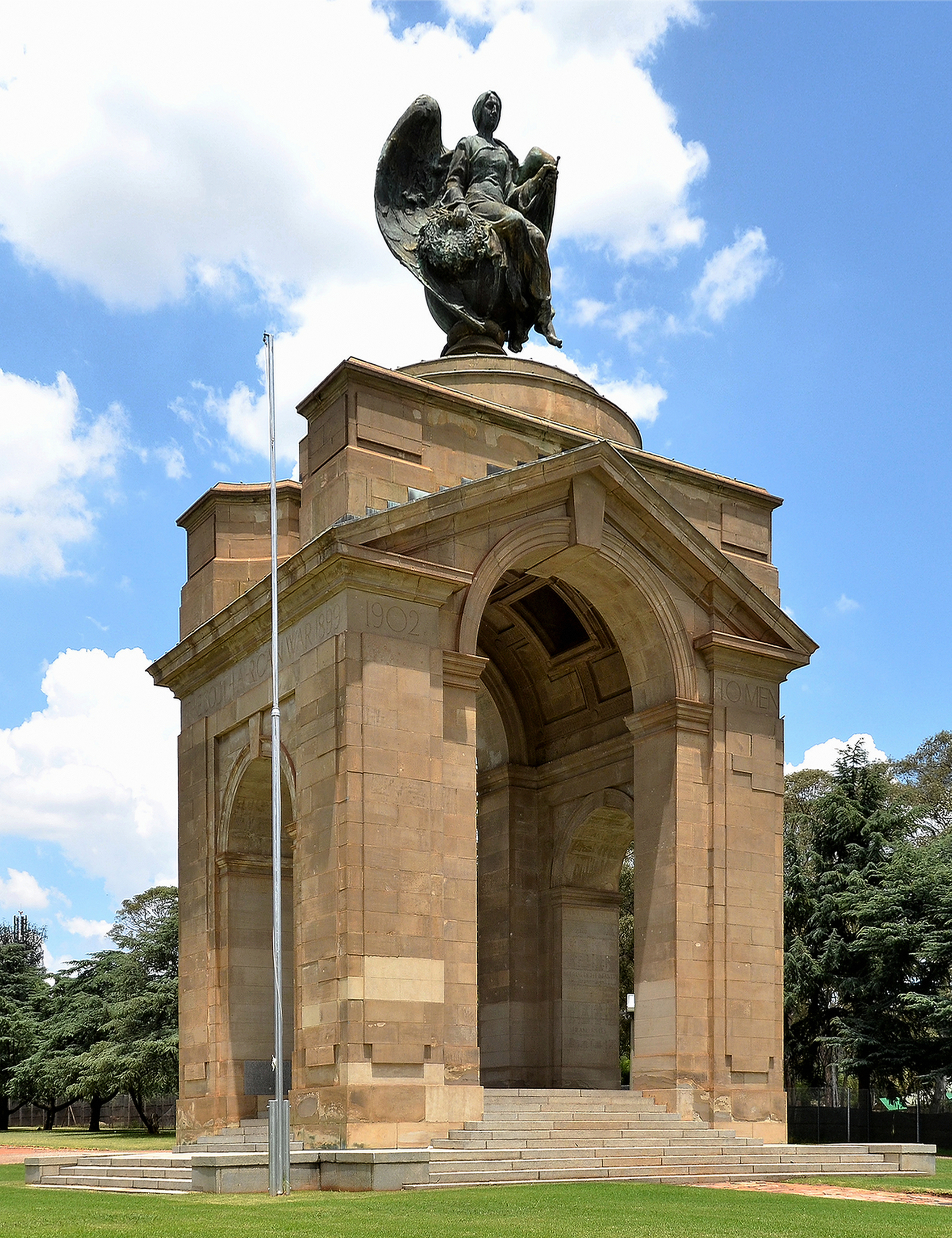 Anglo-Boer War Memorial on the grounds of the Museum of Military History in Saxonwold, Johannesburg, formerly known as the Rand Regiments Memorial, re-dedicated in 2002, recognising all of the men, women and children of all races and nations that lost their lives in the Anglo Boer War.